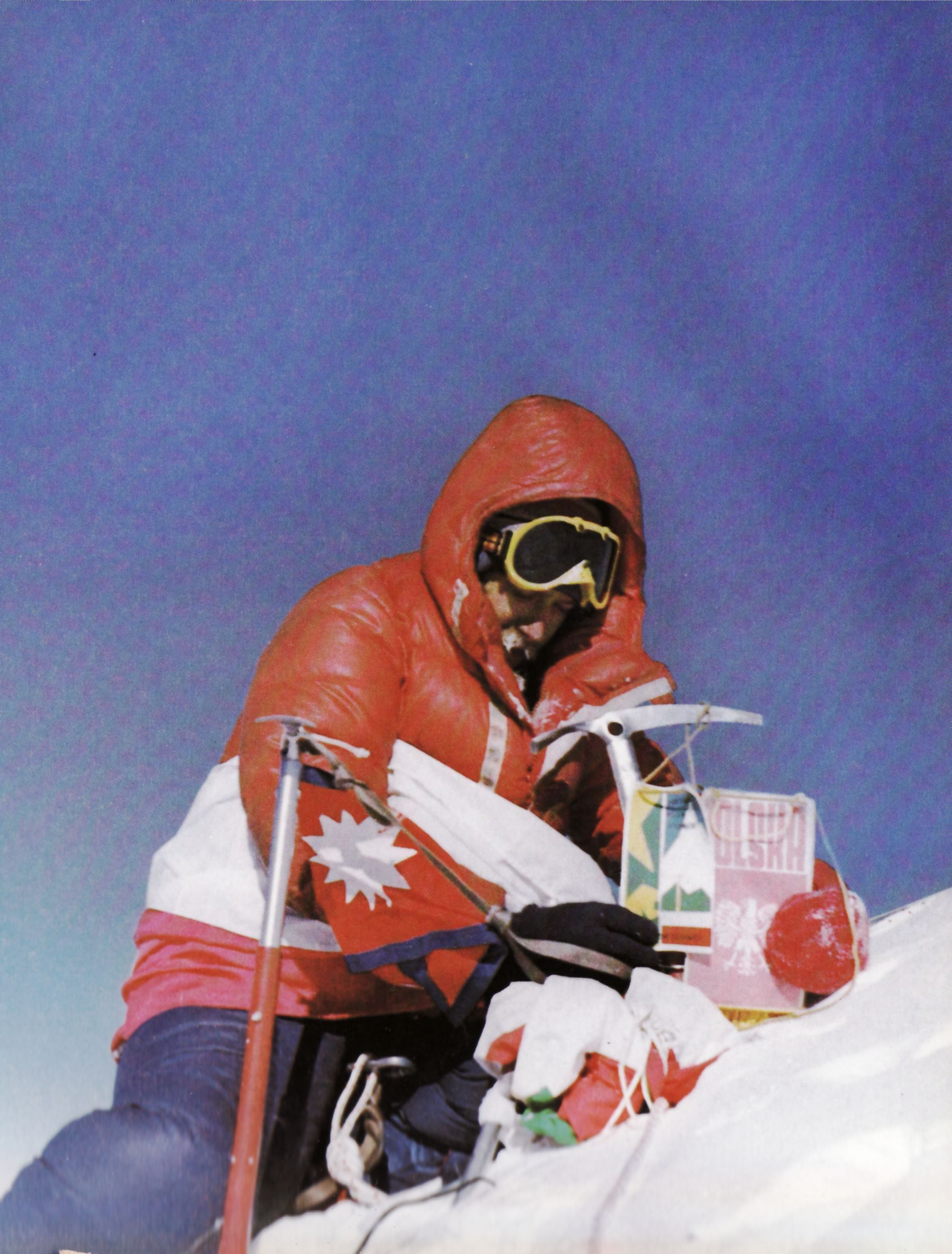 Andrzej Czok on top of Mount Everest on May 19, 1980 after he and Jerzy Kukuczka climb the mountain through new route.